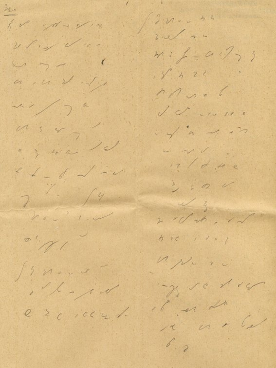 Scan of the stenogram of professional stenographer